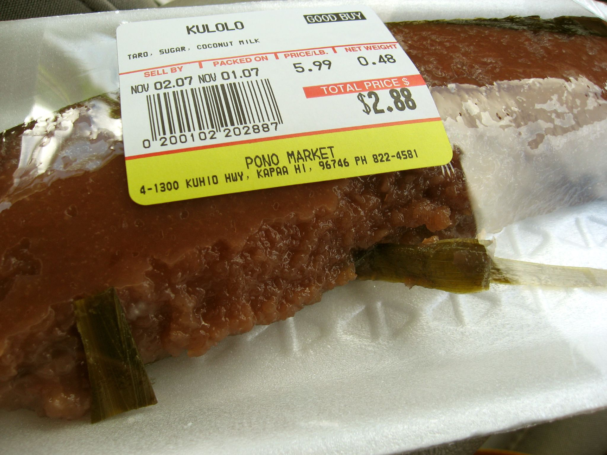 Kaua'i: Wailua River and the East.